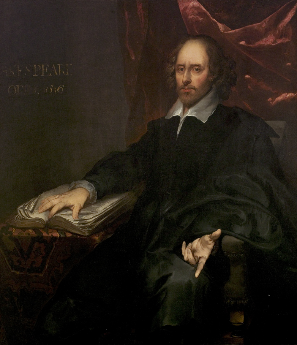 Caption from :This portrait, possibly by the Dutch painter Pieter Borsselaer was once owned by the Earl of Chesterfield. It is perhaps the most Baroque of all paintings of Shakespeare, with its flamboyant and expressive gesture. Shakespeare's head is clearly modelled on the Chandos portrait (now in the National Portrait Gallery, London), including the characteristic earring.